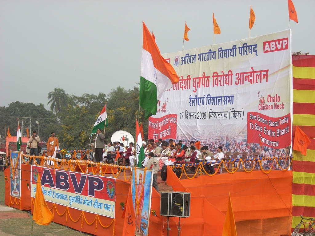 Bangladeshi illegals in India.